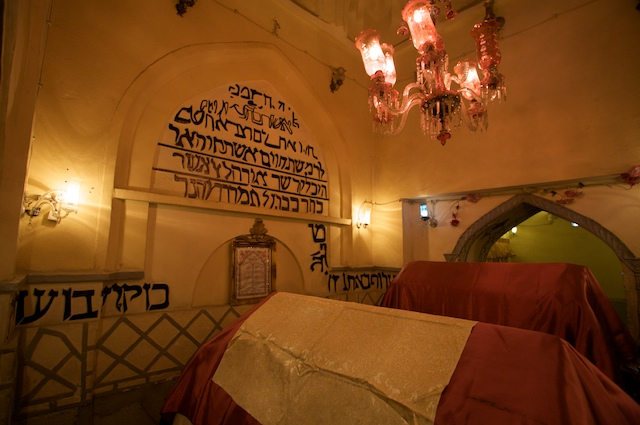 Interior of the tomb of Esther and Mordechai, Hamedan, Iran.